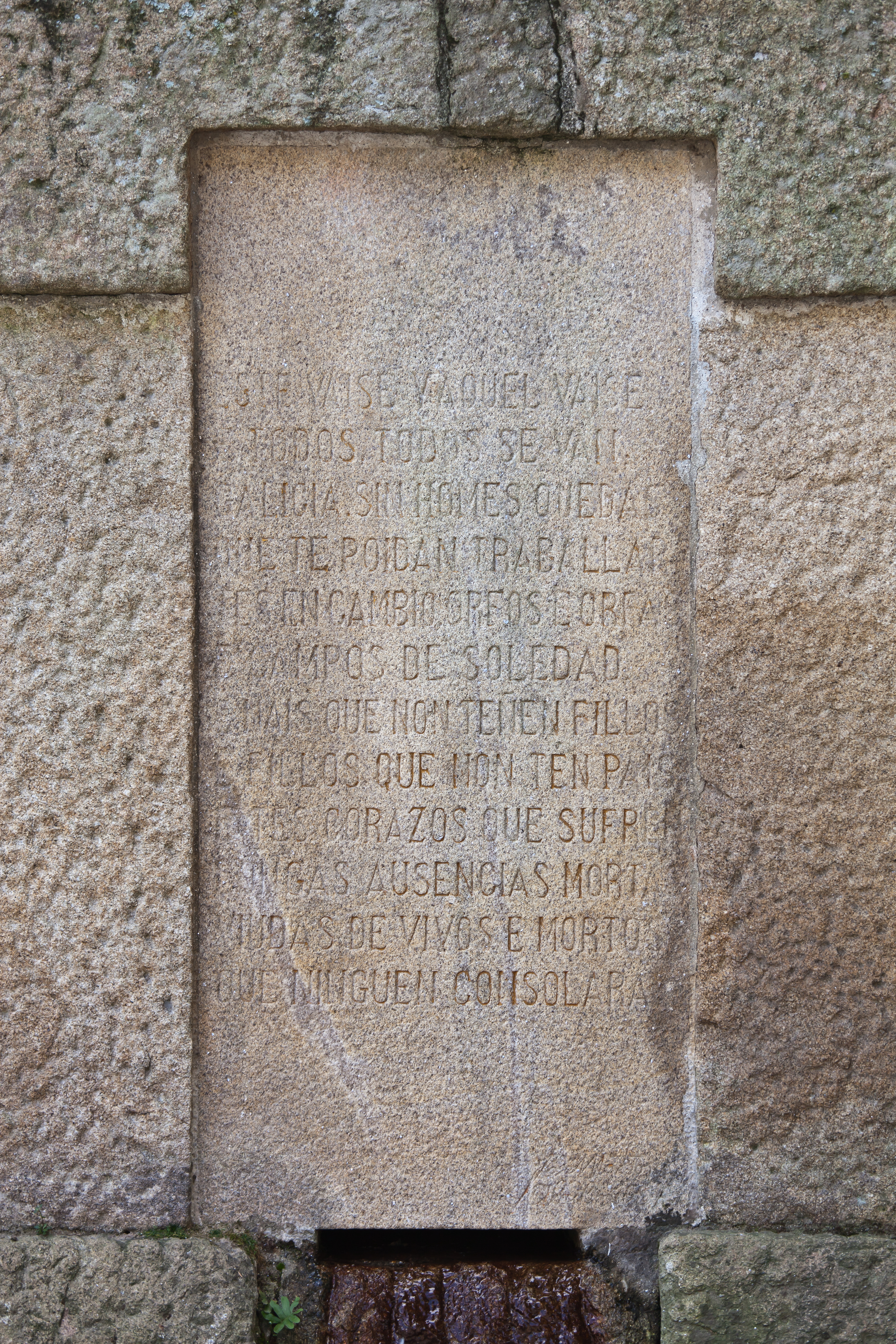 Poem of Rosalía de Castro, Padrón, Galicia (Spain)